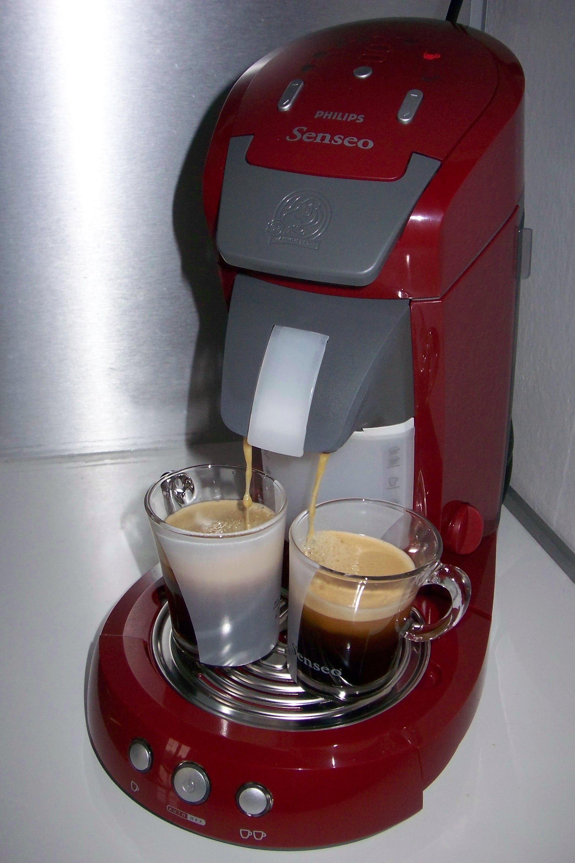 Philips' single serve coffee machine